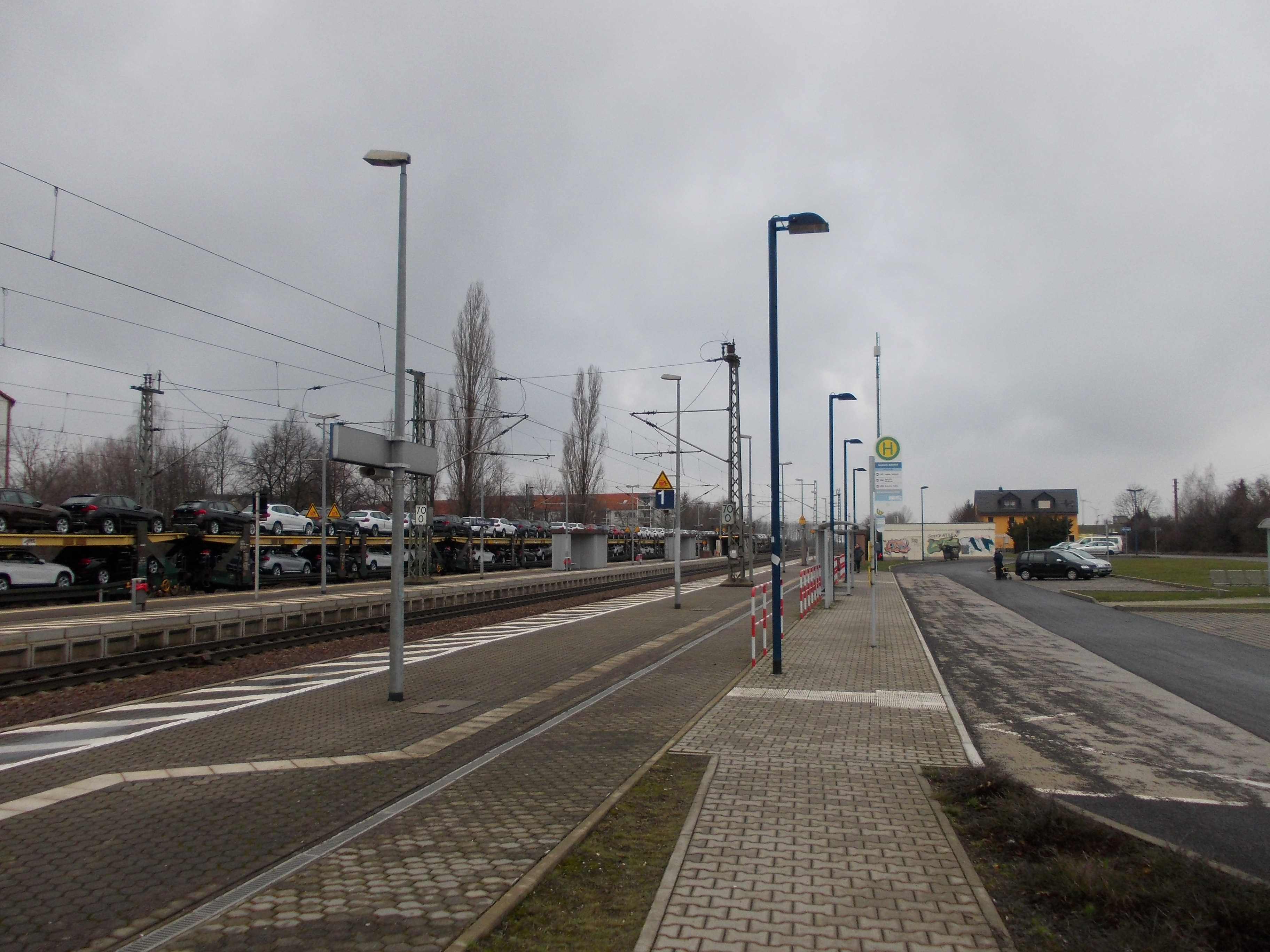 Train station in Rackwitz (Nordsachsen district, Saxony)